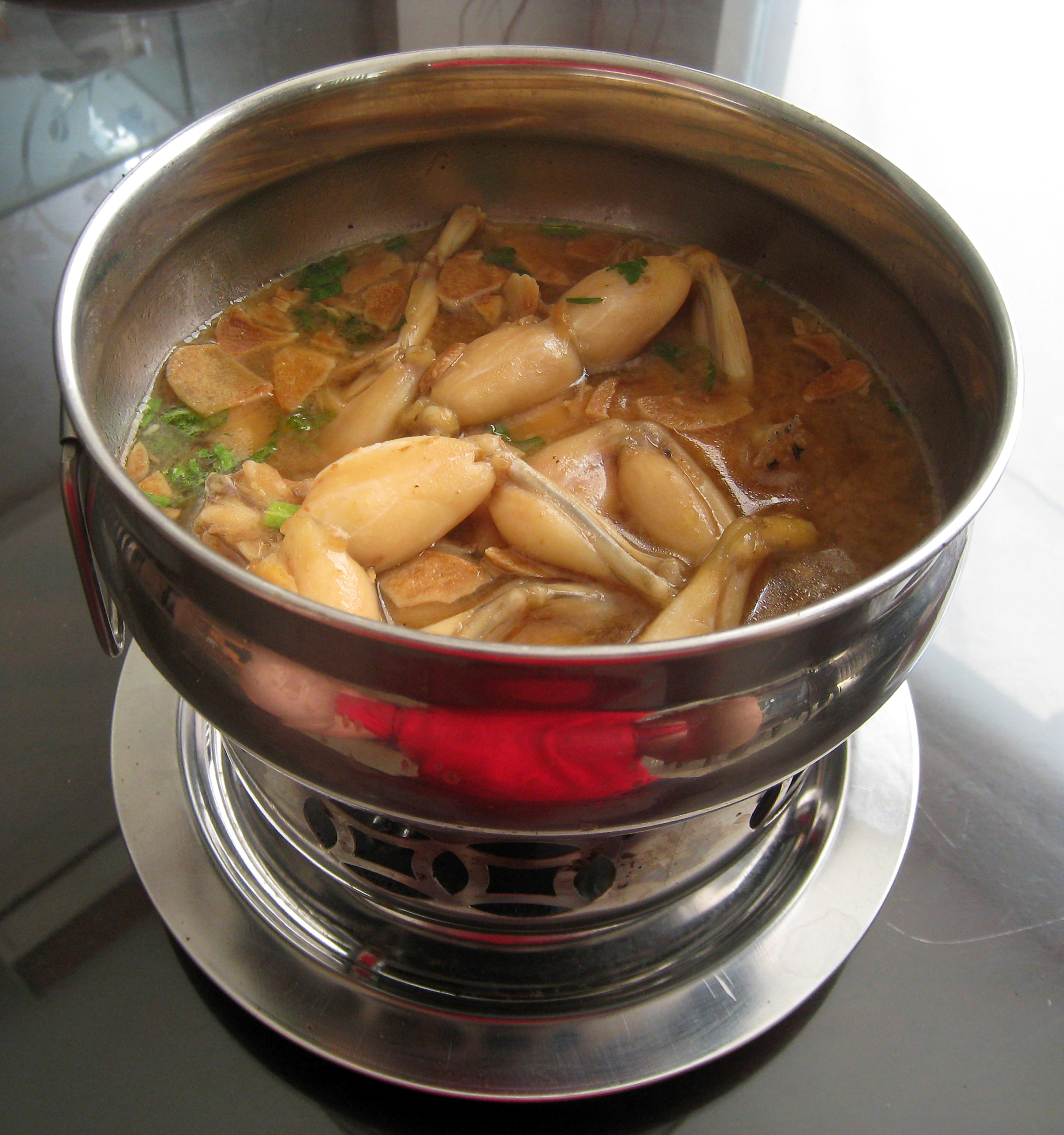 Kodok Oh is a kind of Swikee, Chinese Indonesian frog leg dish, cooked in tauco (fermented soybean paste) soup. Jalan Gajah Mada, Jakarta, Indonesia.